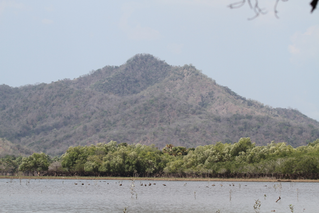 Lake Be Malae view